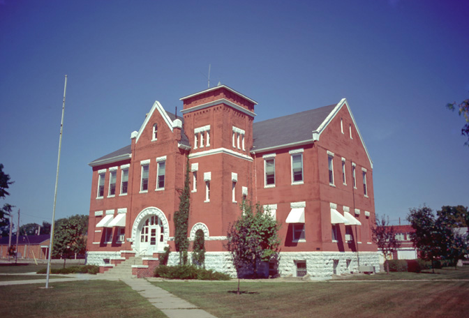 The Worth County Courthouse, located along Central Ave. between 10th and 11th Sts. in Northwood, Worth County, Iowa, United States. Built in 1893, it was added to the National Register of Historic Places on 2 July 1981.